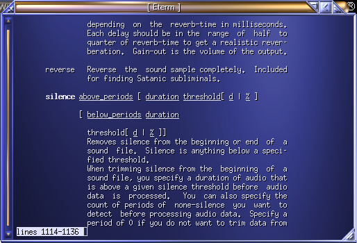 A screenshot of the man page for the SoX program, which includes a joke about backward messages. Both Eterm and SoX are GPL.